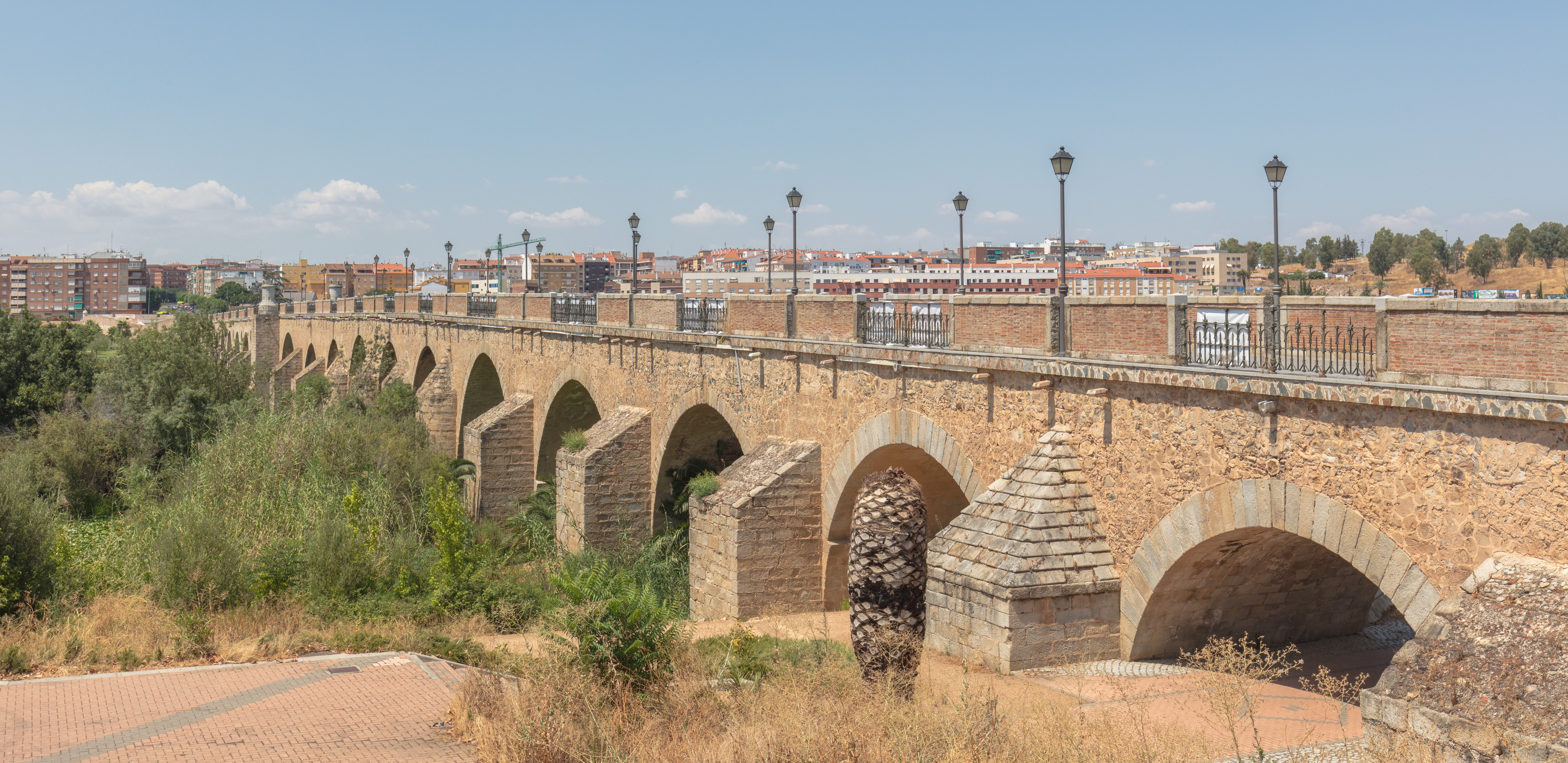 Palmas Bridge, Badajoz, Spain